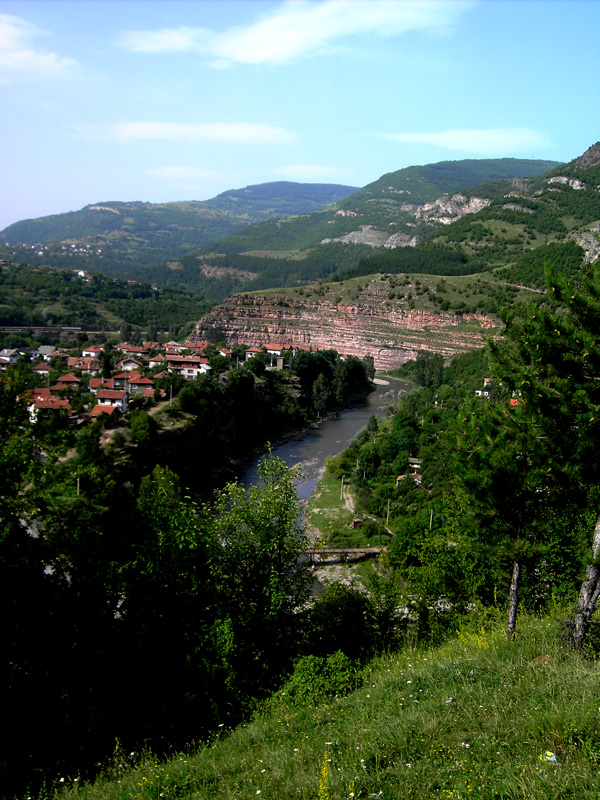 Iskar gorge, Bulgaria